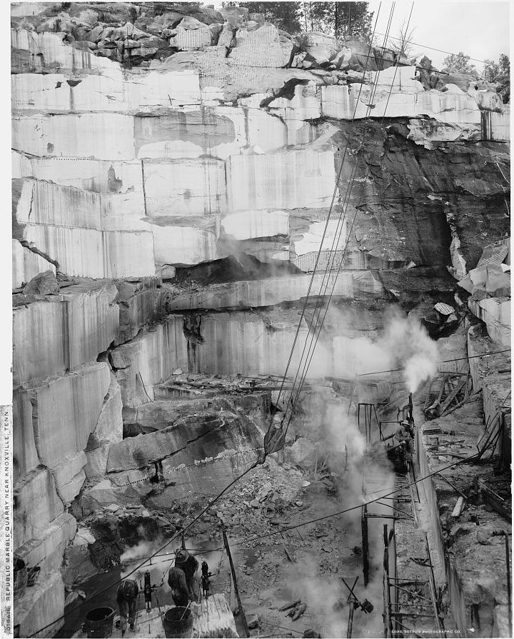 The Republic Marble Quarry in Knoxville, Tennessee, USA, photographed in the early 1900s. This quarry was located in South Knoxville near Island Home.